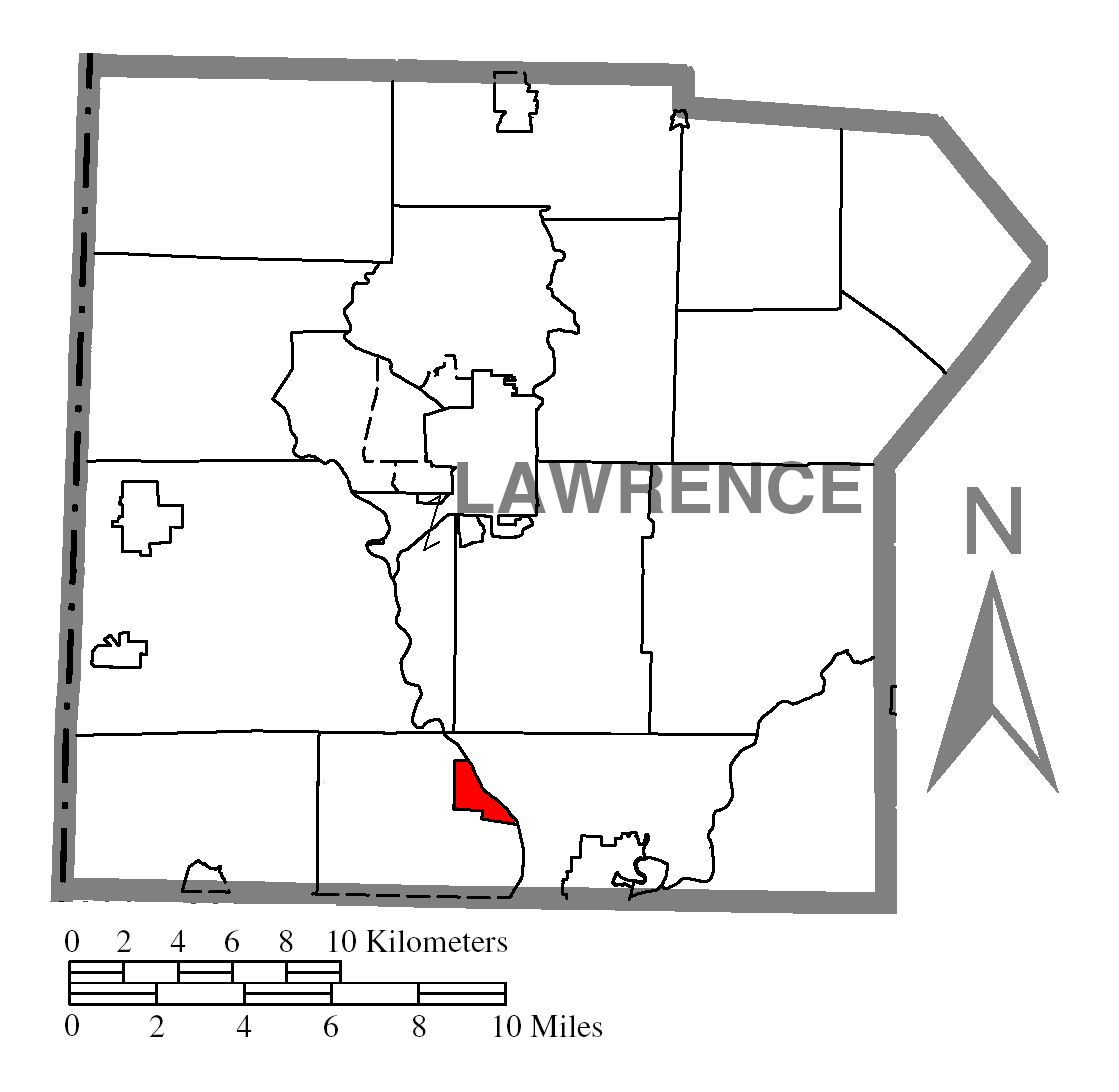 Map of Lawrence County higlighting Wampum.